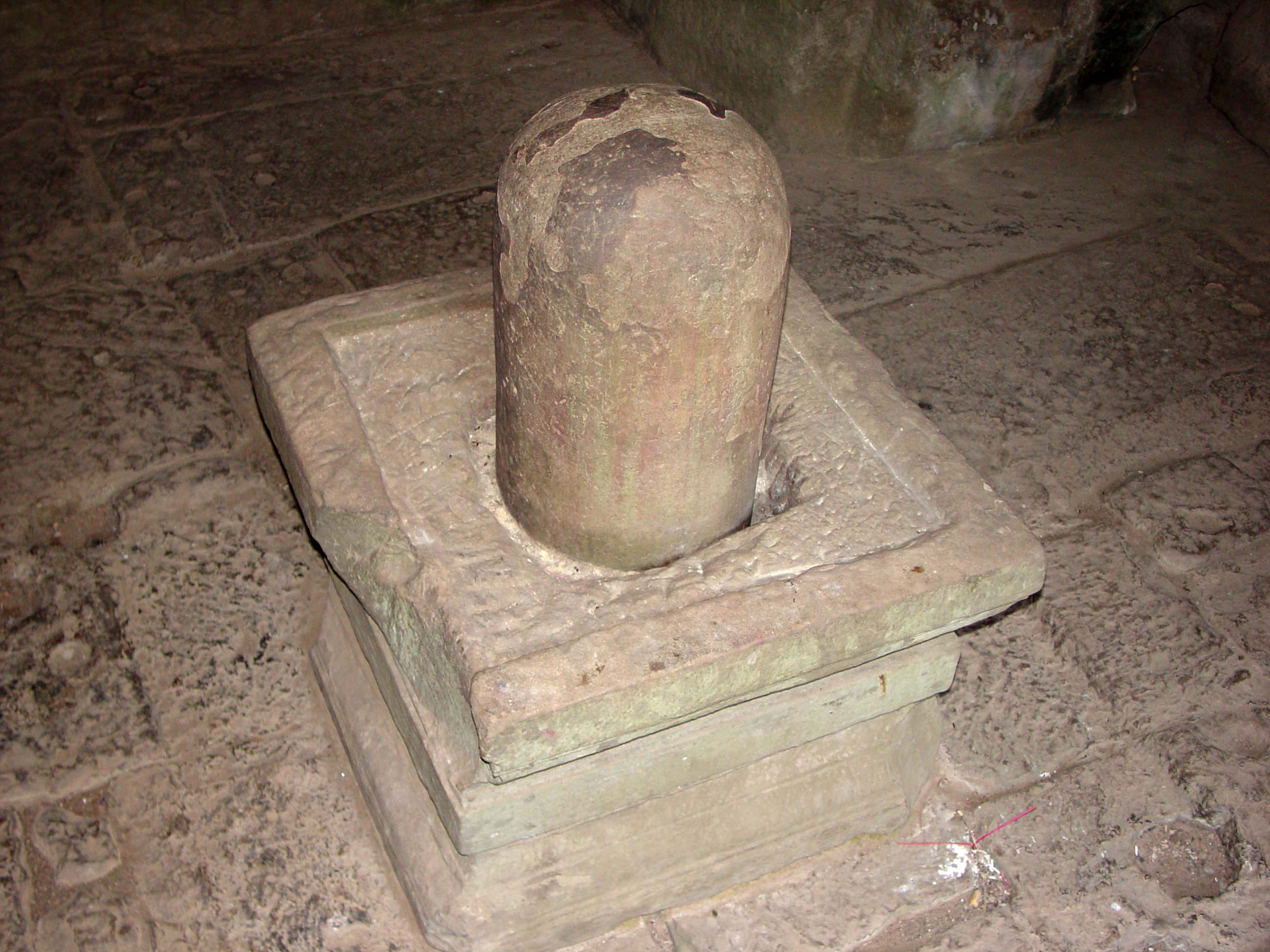 Dated to Jayavarman VII-VIII, this Shiva linga is located in the north wing of the east inner gallery of the Bayon at Angkor Thom.